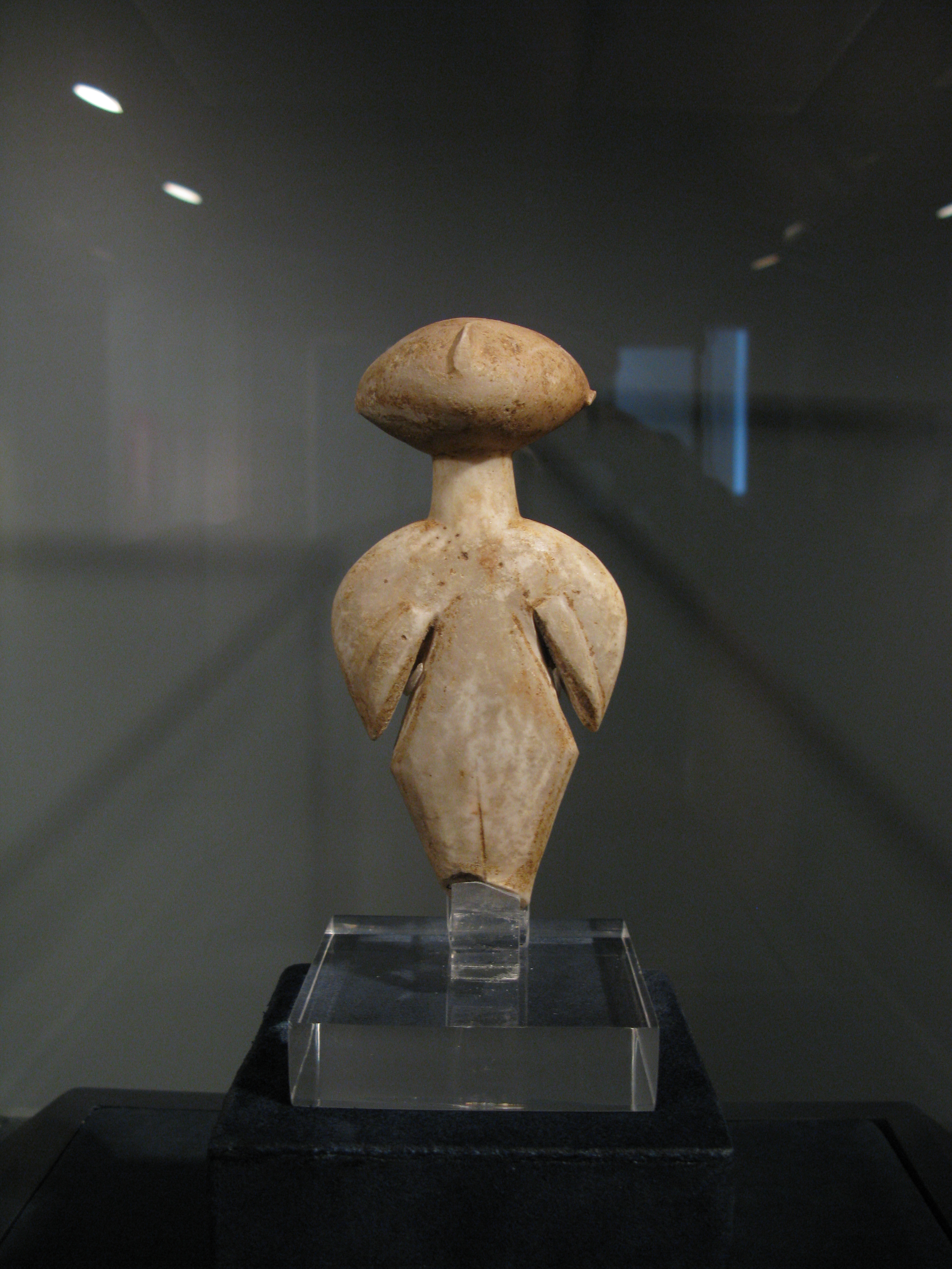 Figurine of the Kilia type. These figures are commonly known as “Star Gazers”, because they seem to be looking upward. From the site of Kilia, on the Callipoli peninsula in Eastern Thrace (European Turkey) c. 4360-3500 BC. Cycladic Art Museum, Athens, Greece.